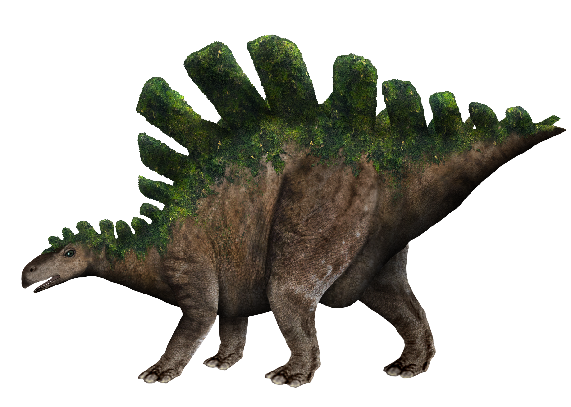 Artist's impression of the Mbielu-mbielu-mbielu.